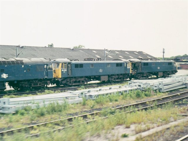 Crewe Electric Loco Depot. Taken from a passing train. The locos had been damaged in an incident at Nuneaton a few days beforehand.